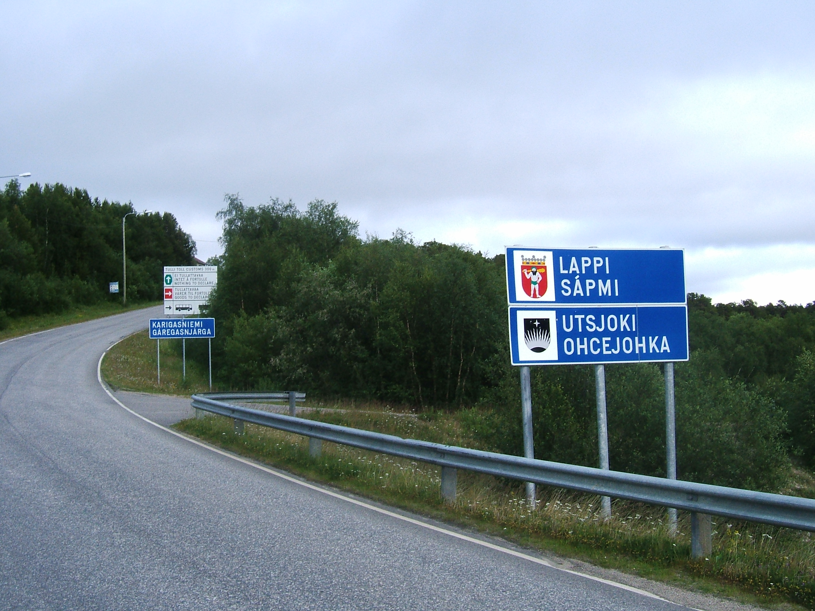 Entering Finland in Karigasniemi, Utsjoki, from Norway